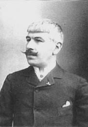 Portrait of Eugène Chaperon